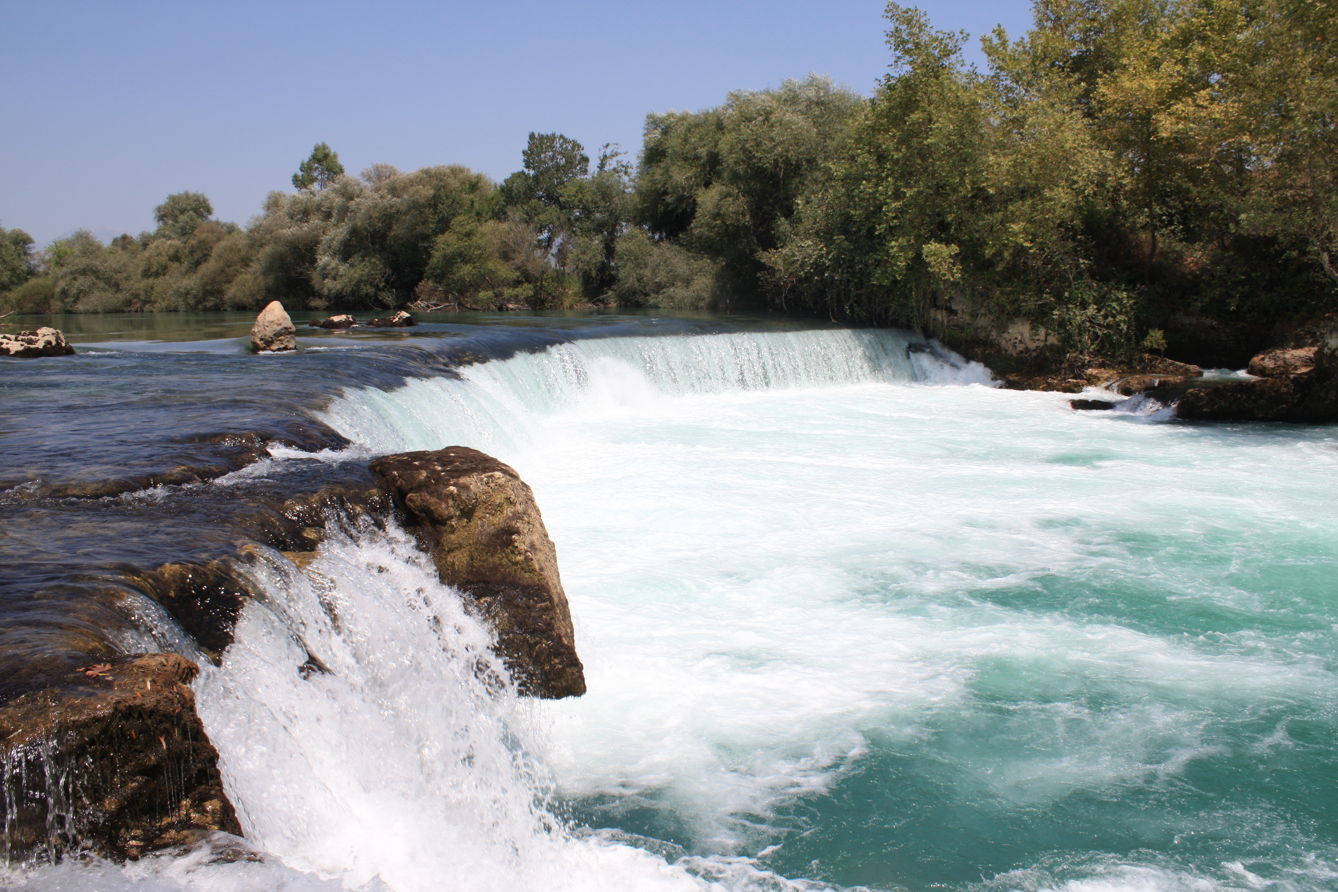 Manavgat Waterfall in Turkey. Province of Antalya.